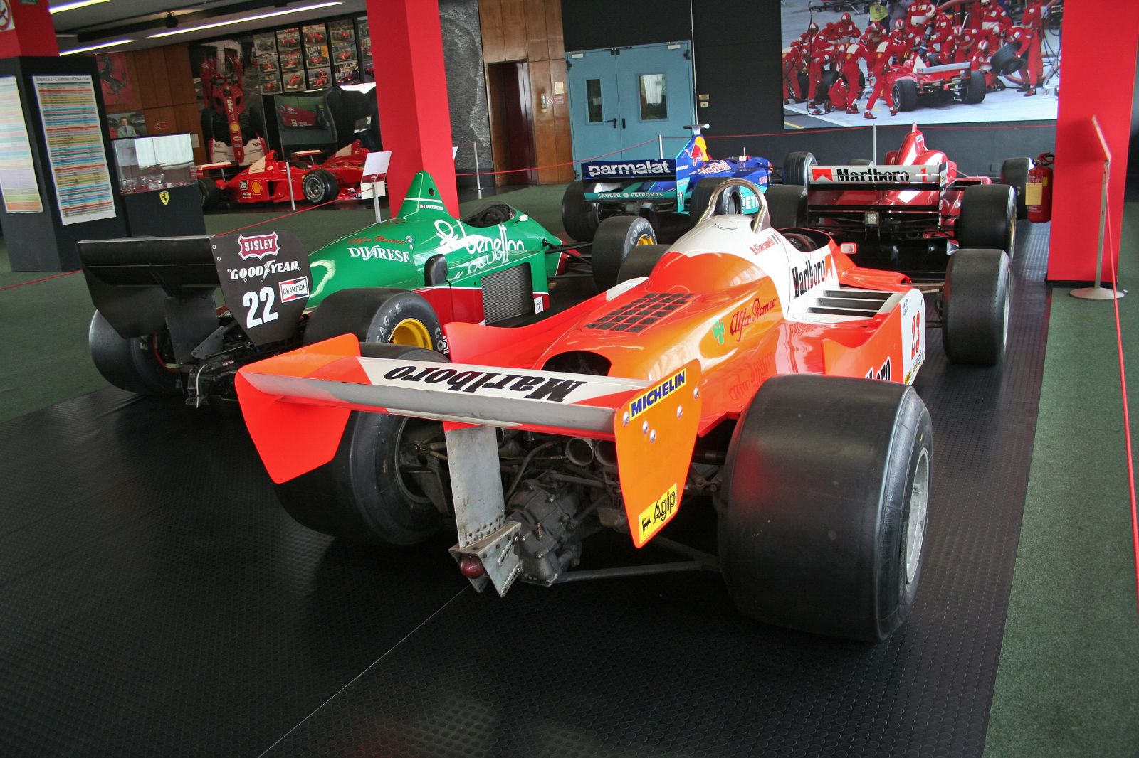 ALFA ROMEO mod. 179 B MUSEO DELL'AUTOMOBILE Turin